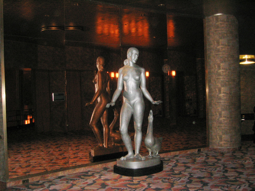 Art-deco statue Goose Girl by Robert Laurent in the lobby of Radio City Music Hall, Manhattan, New York City